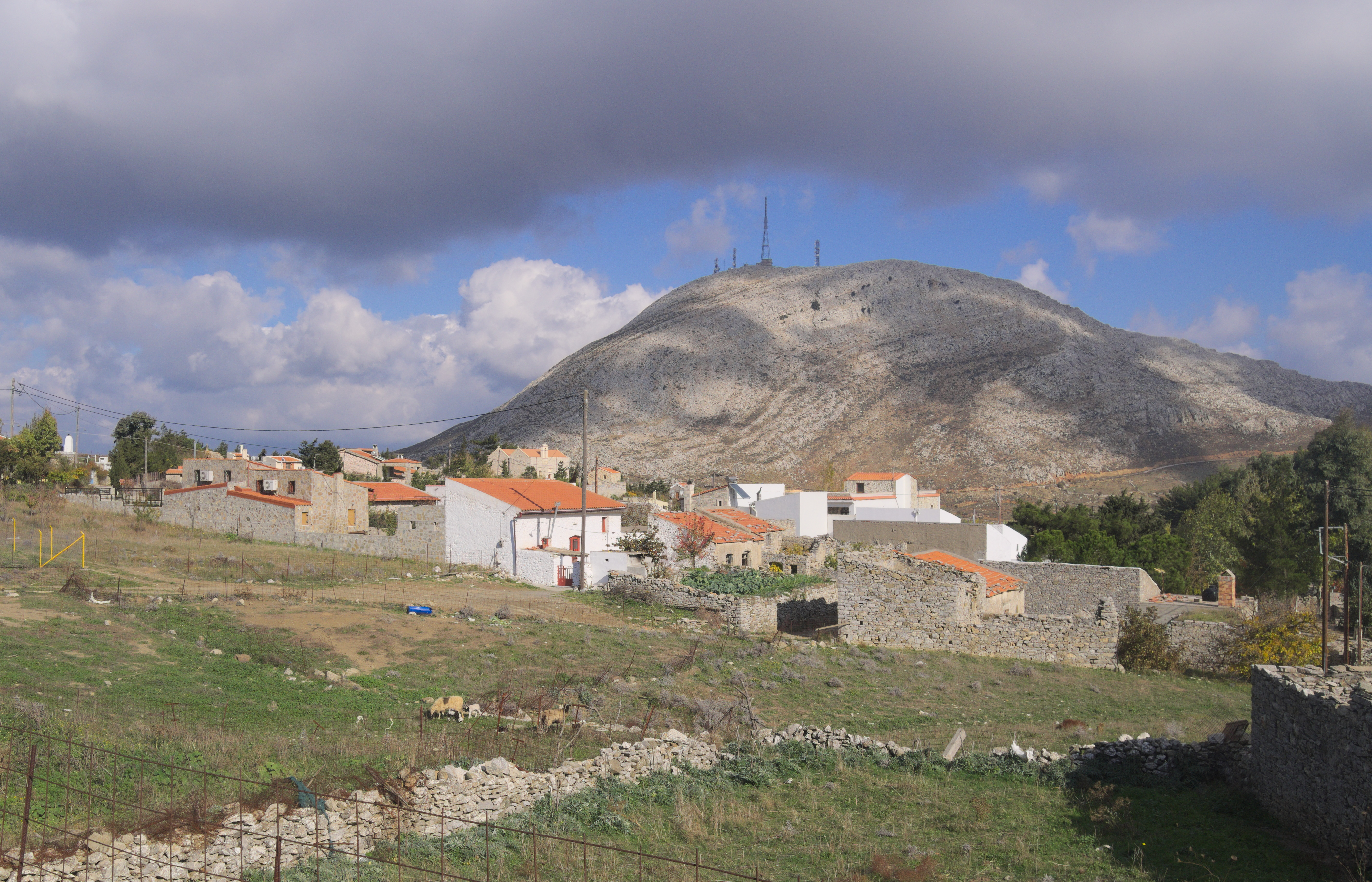 The mountain village Ethia, at Mt Asterousia, that has been declared a traditional settlement.